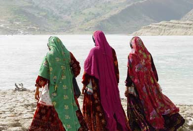 Lori tribal women.